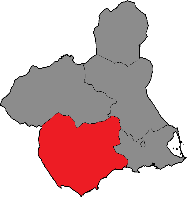 Murcian Regional Assembly District One.